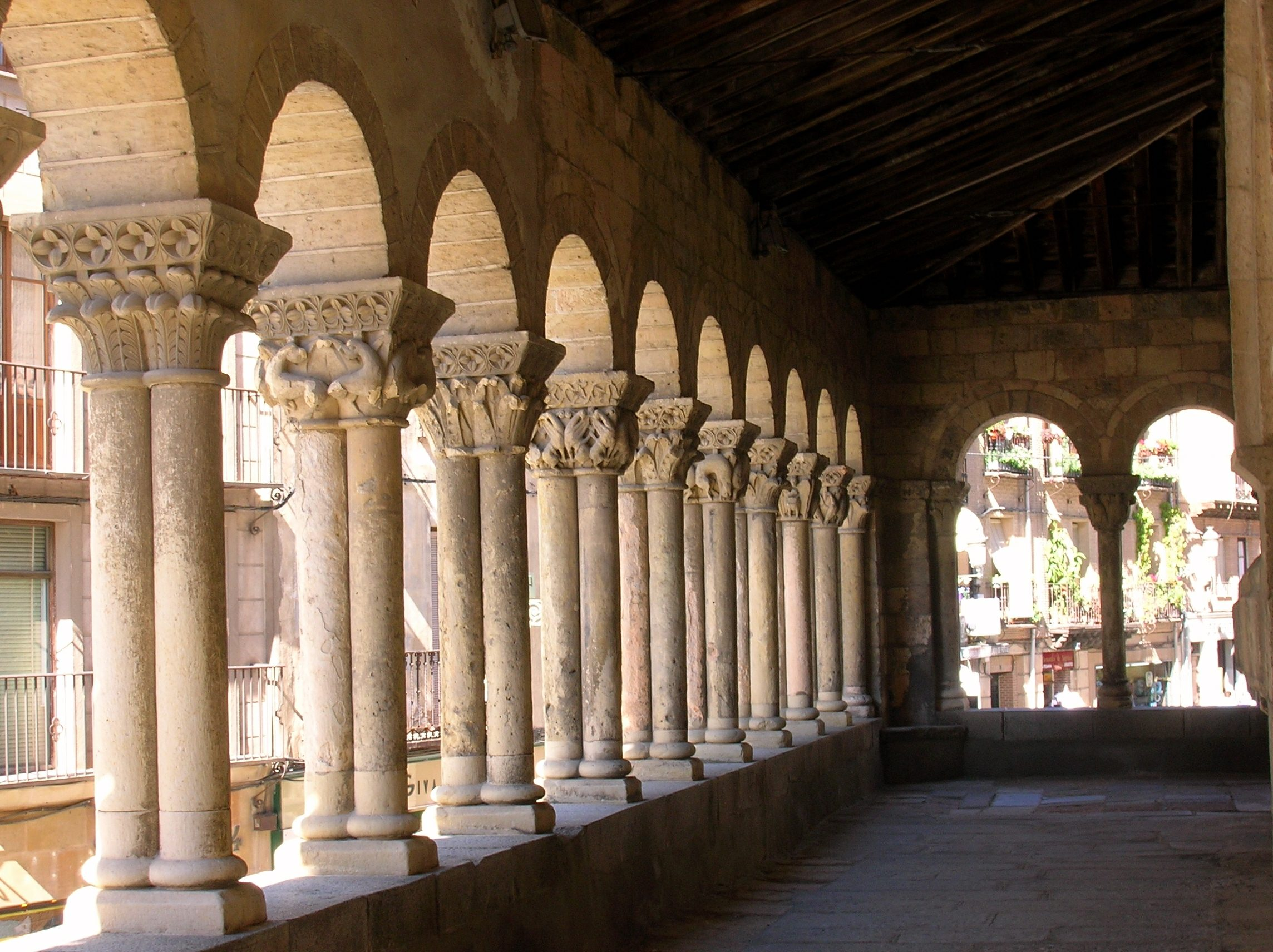 Pórtico de la iglesia de San Martín, en Segovia (España).